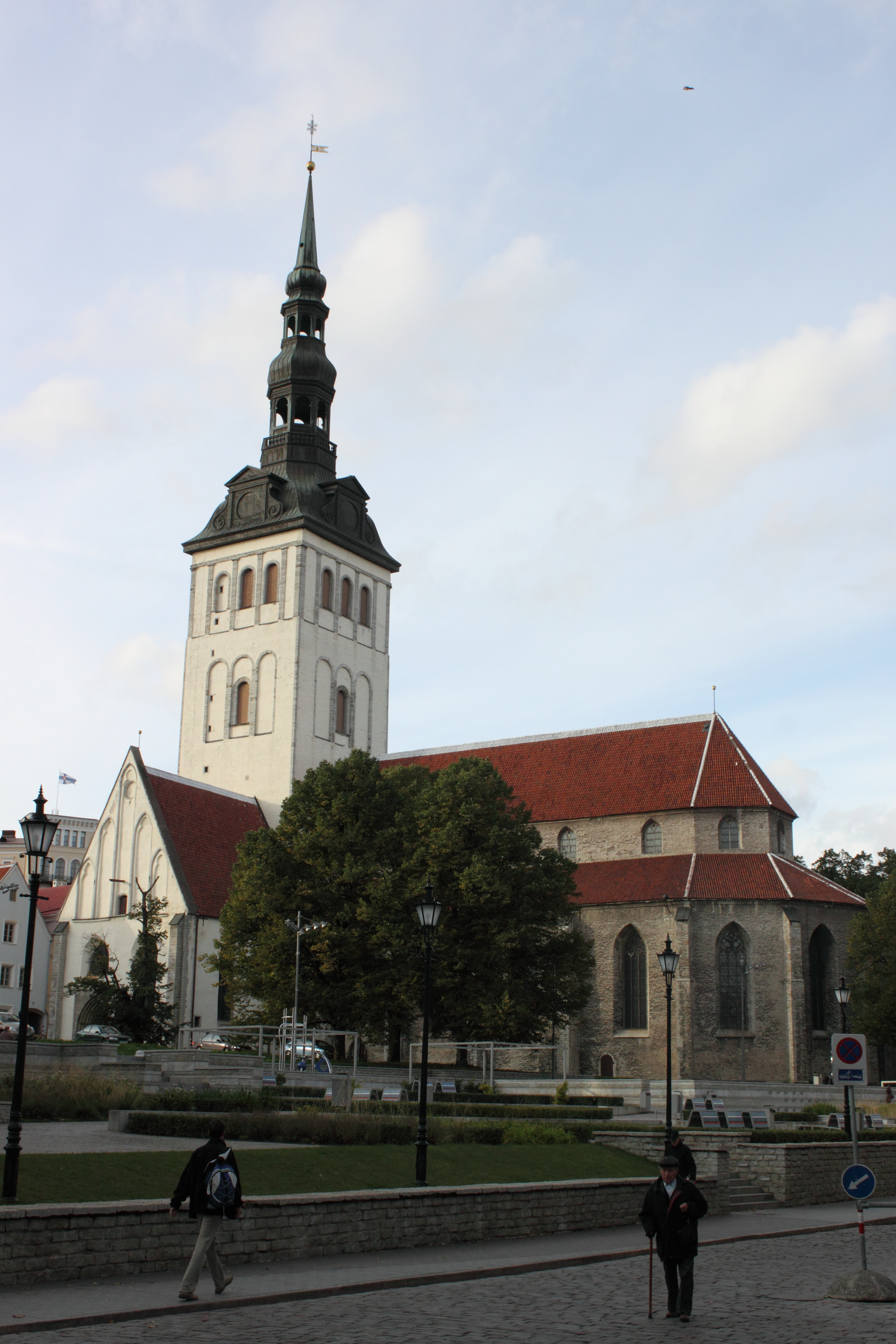 St. Nicolas' Church, Tallinn